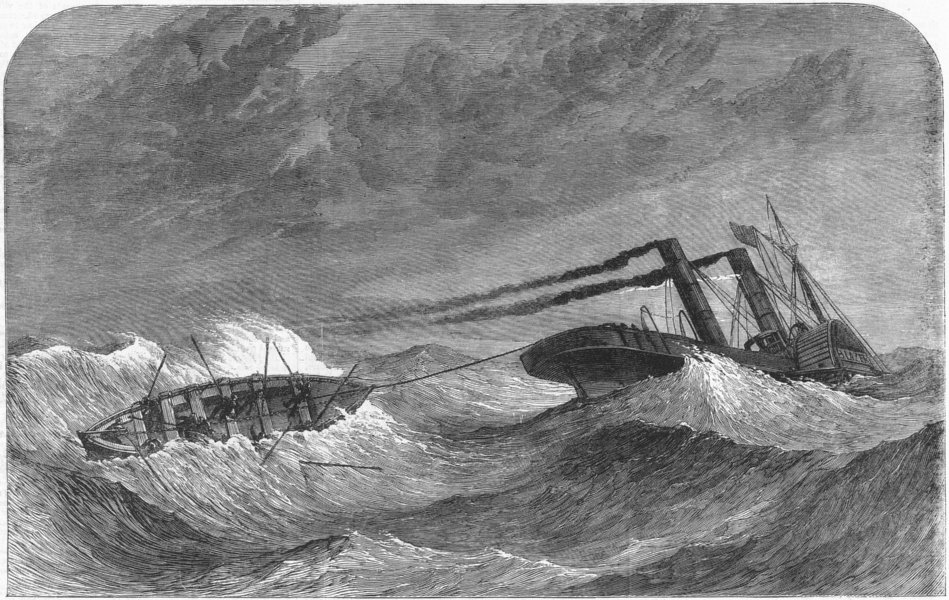 Upsetting of the Liverpool life-boat on her way to rescue the crew of the Lelia